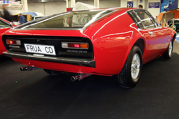 The Frua CD was a revision of the Opel CD and the predecessor of the Bitter CD. Two prototypes were built.